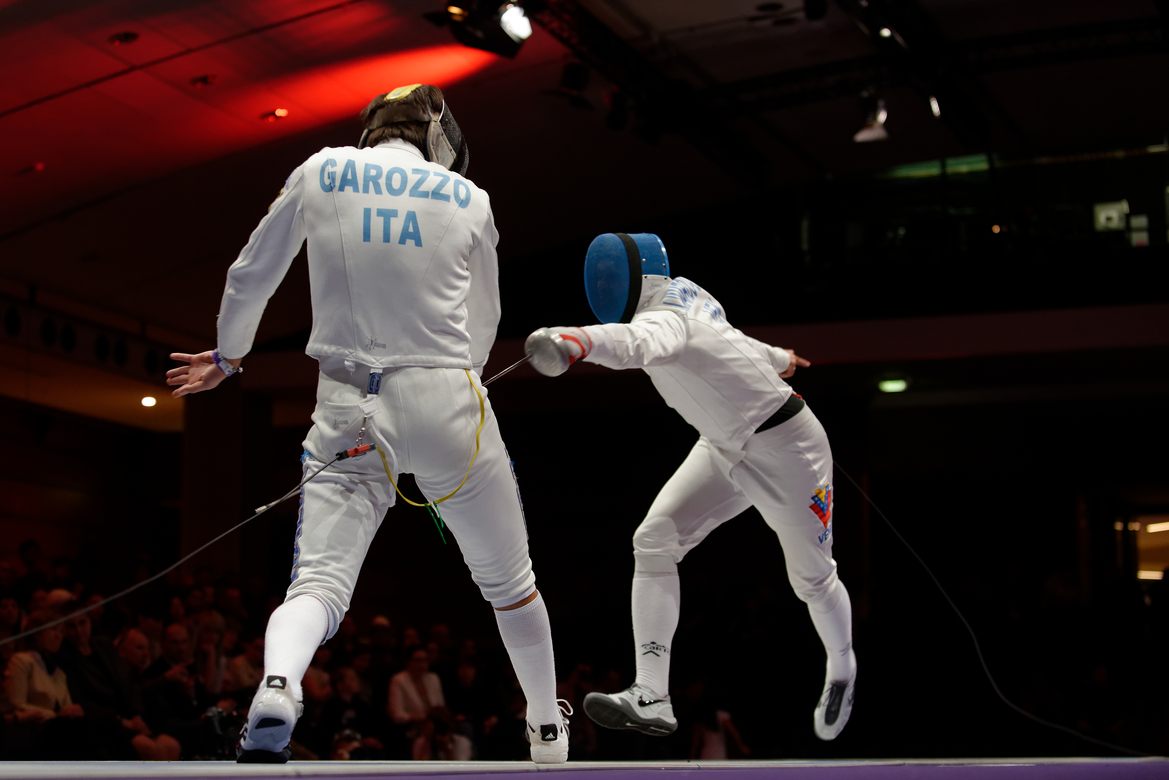 Italy's Enrico Garozzo (L) fences against Rubén Limardo of Venezuela (R) in the final of the Challenge Réseau Ferré de France–Trophée Monal 2013, a men's épée FIE World Cup competition.